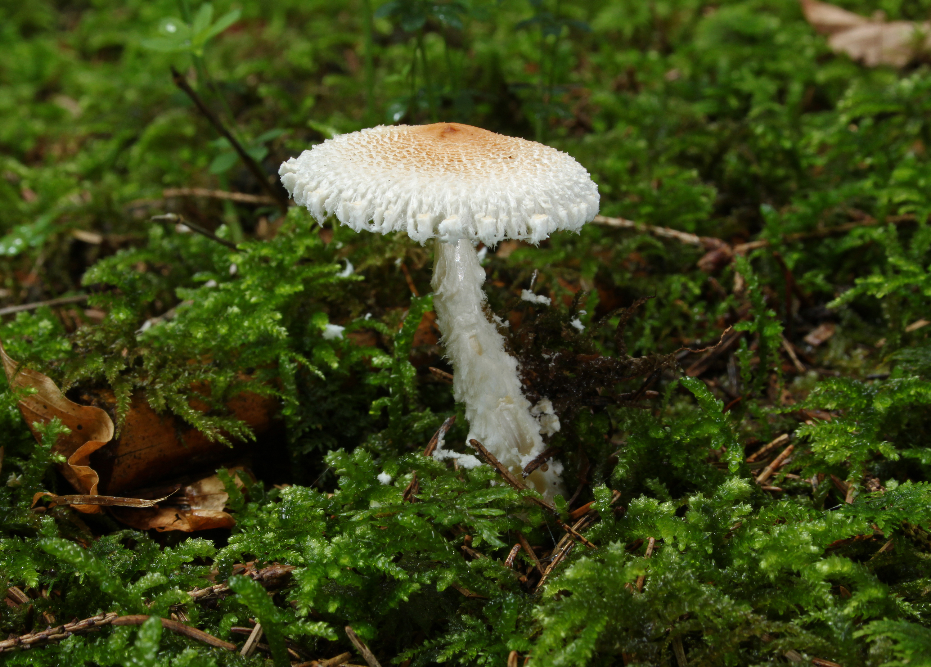 Shield Dapperling Lepiota clypeolaria, Family: Lepiotaceae, Location: Germany, Ulm, Eggingen